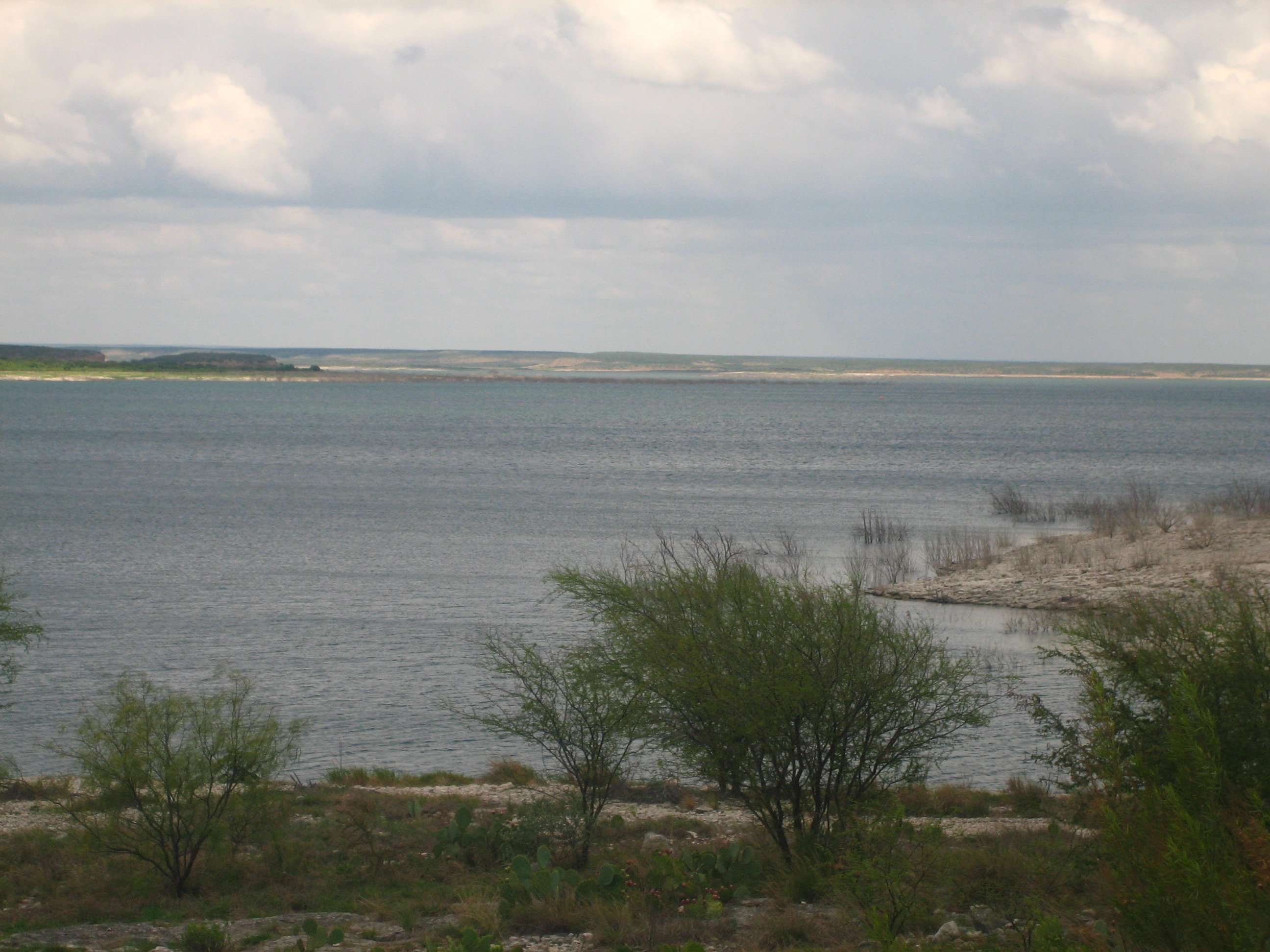 I took photo on July 9, 2008.Billy Hathorn (talk) 01:50, 28 July 2008 (UTC)